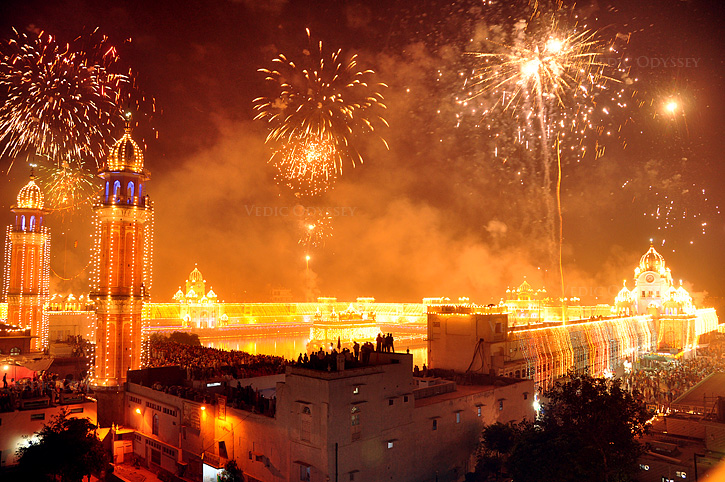 Dipavali lighting and fireworks India, Festival of lights